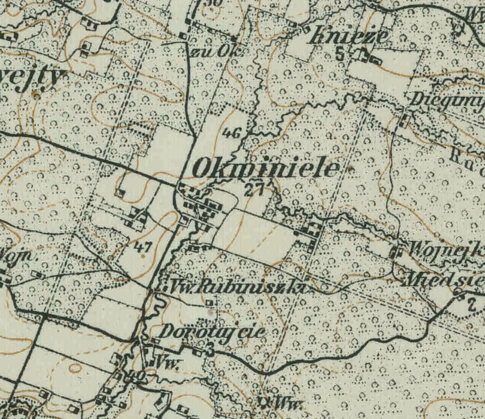 The village of Akmenalės, Kretinga district, LithuaniaLietuvių: Akmenalių kaimas, Kretingos rajonas, Lietuva